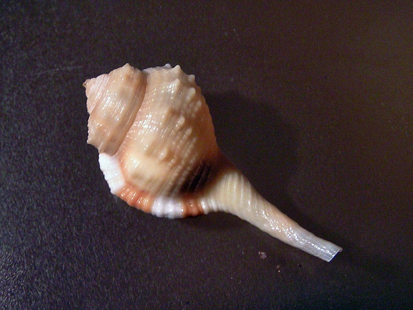 Ranularia oblita Lewis & Beu, 1976, a triton shell from the family Ranellidae; Philippines